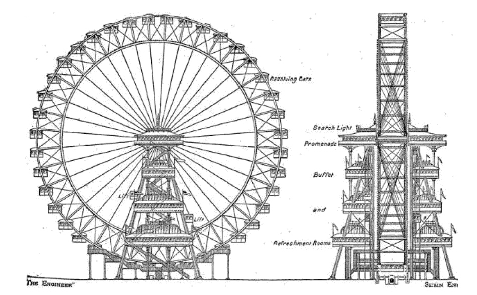 Design layout of the Great Wheel London